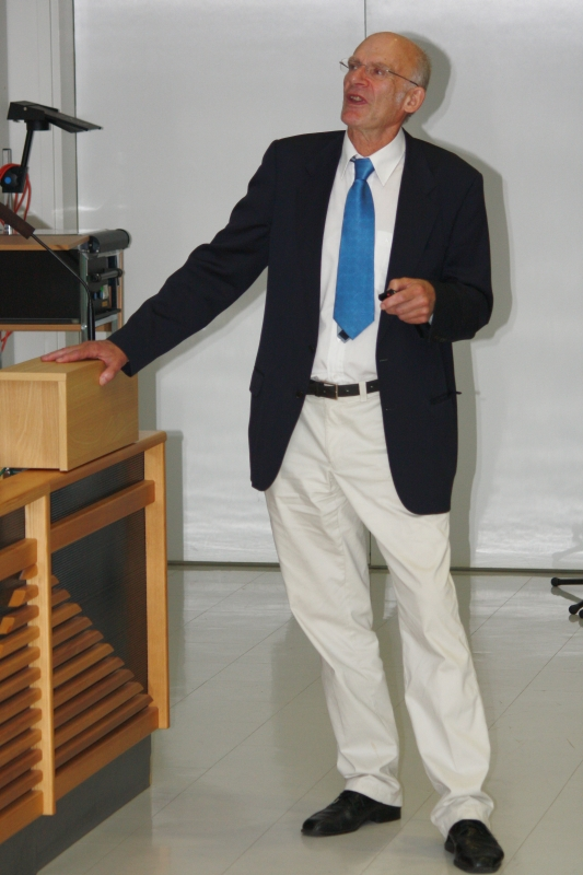 Risto Näätänen in lecture